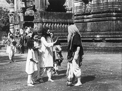 A still of a scene from the first full-length silent feature film in India, Raja Harishchandra. The film was released in 1913 had no sound or music and had men playing roles for women.